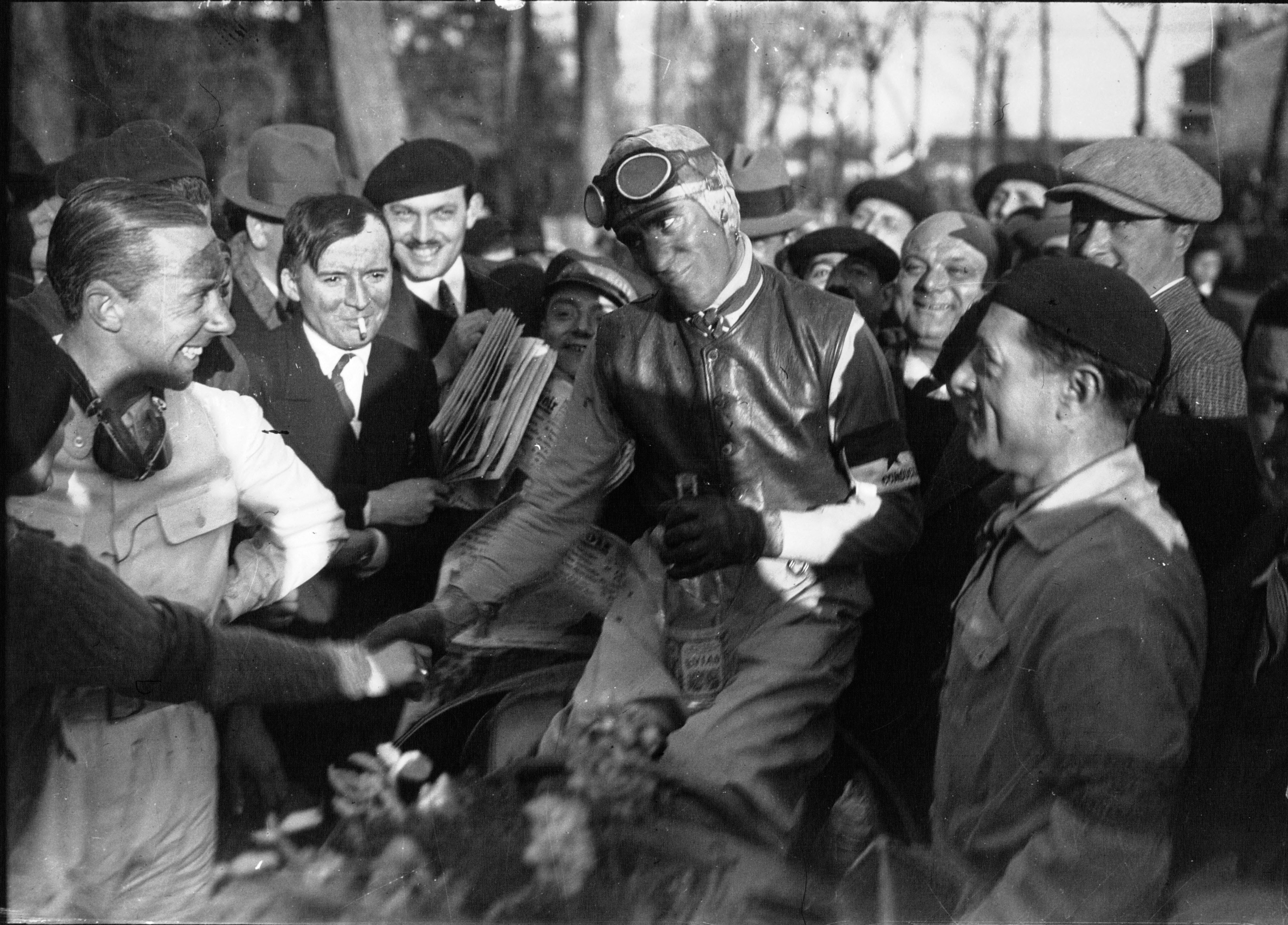 Tazio Nuvolari (right, leather vest) and René Dreyfus (left, white racing suit) after Nuvolari's victory at the 1935 Grand Prix de Pau. This was on 24 February 1935[1]